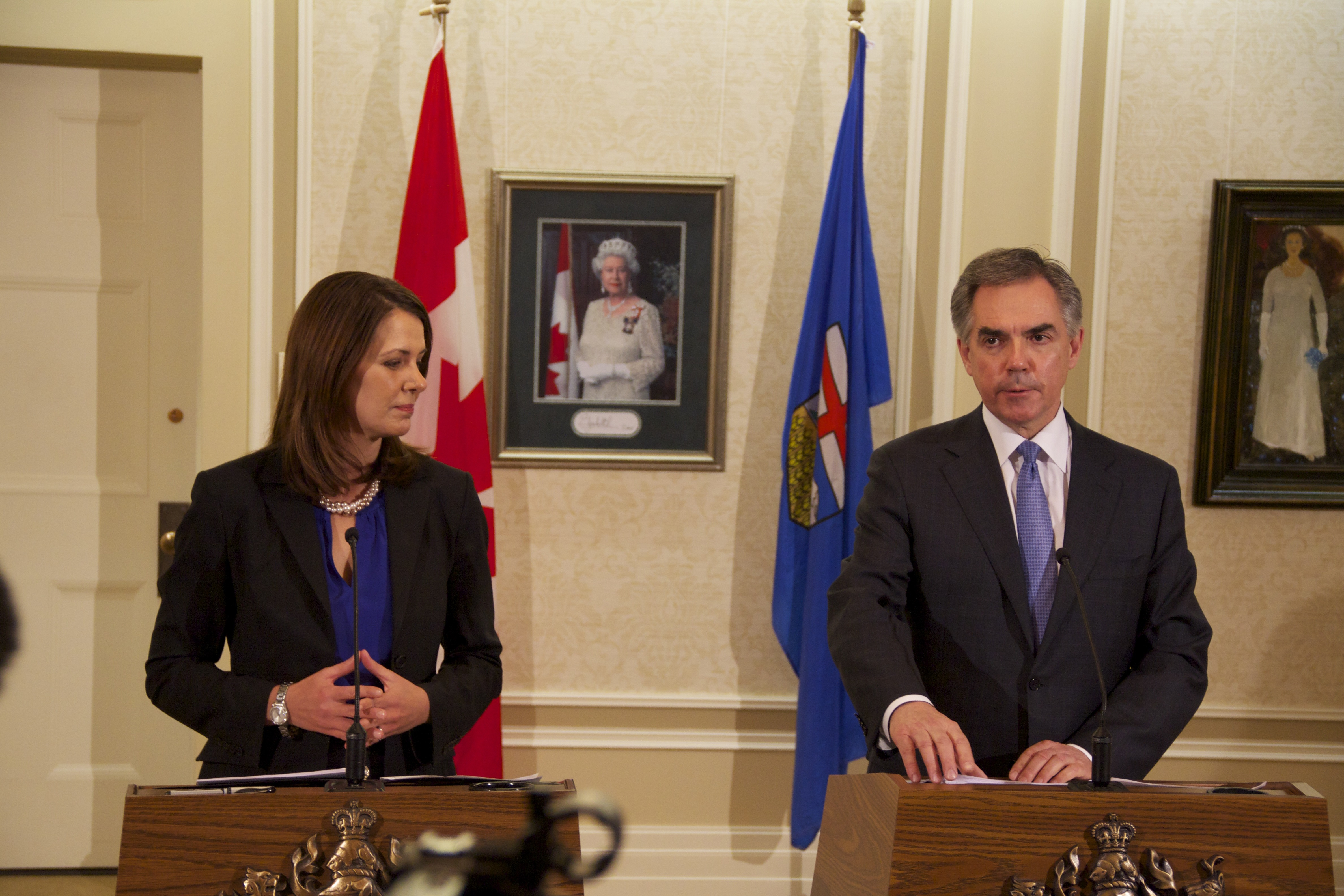 Jim Prentice and Danielle Smith announce the floor crossings of Ms. Smith and 8 Wildrose MLAs to the governing PC Party caucus.